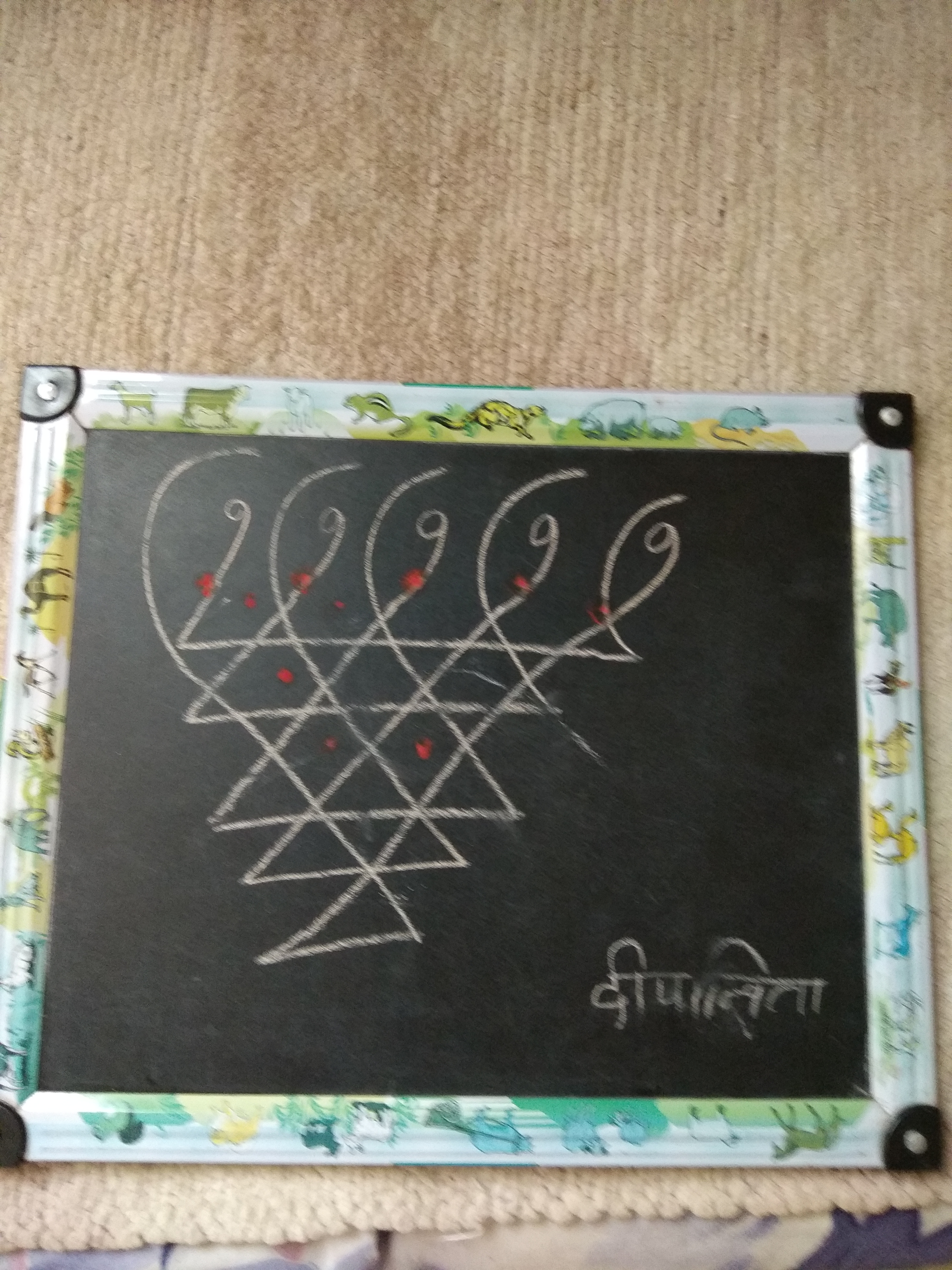 Sarasvati Pooja